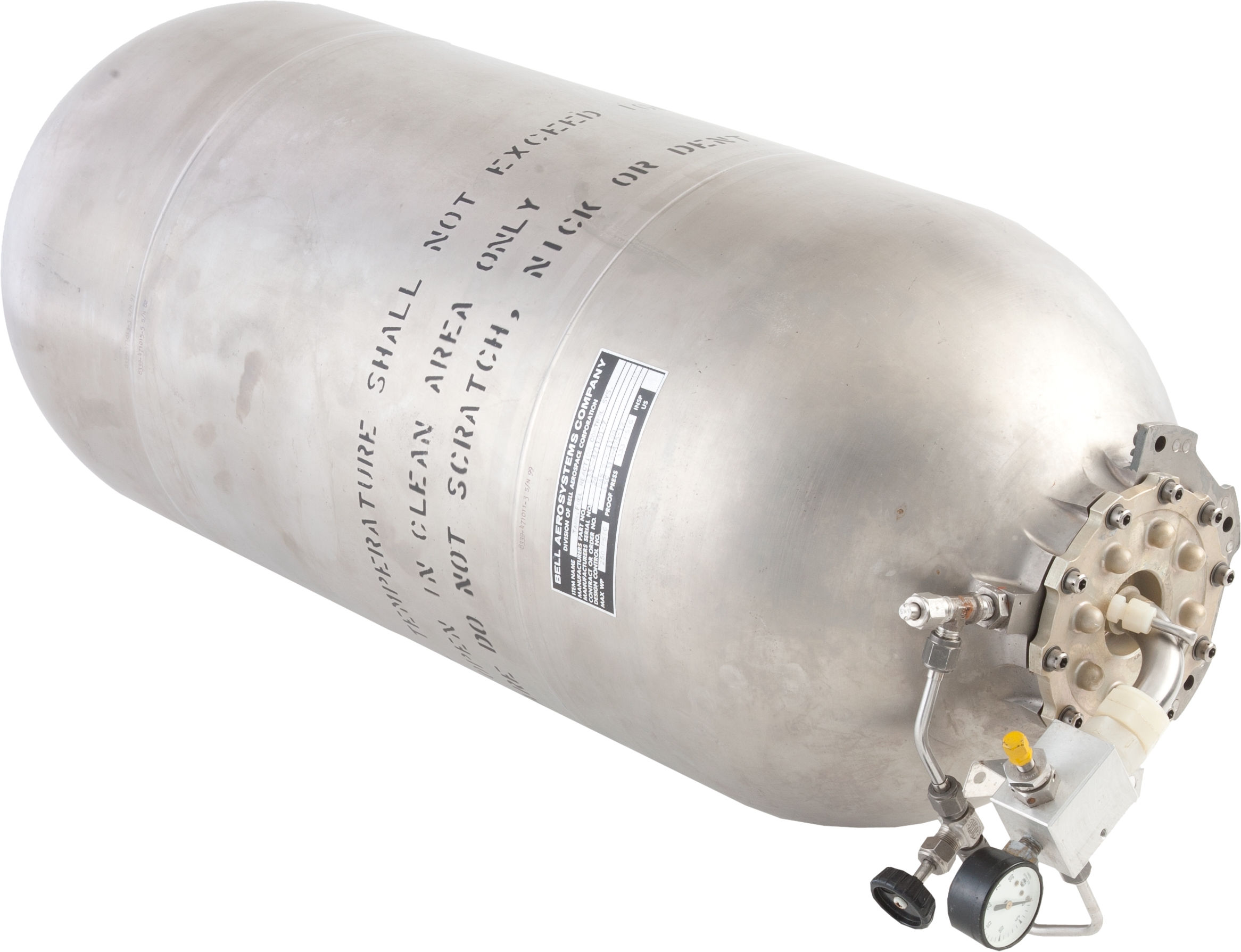 Titanium fuel tank for Project Apollo. The large letters around the tank read: Tank Shell Temperature Shall Not Exceed 160° F Open In Clean Area OnlyHandle With Care Do Not Scratch, Nick Or Dent